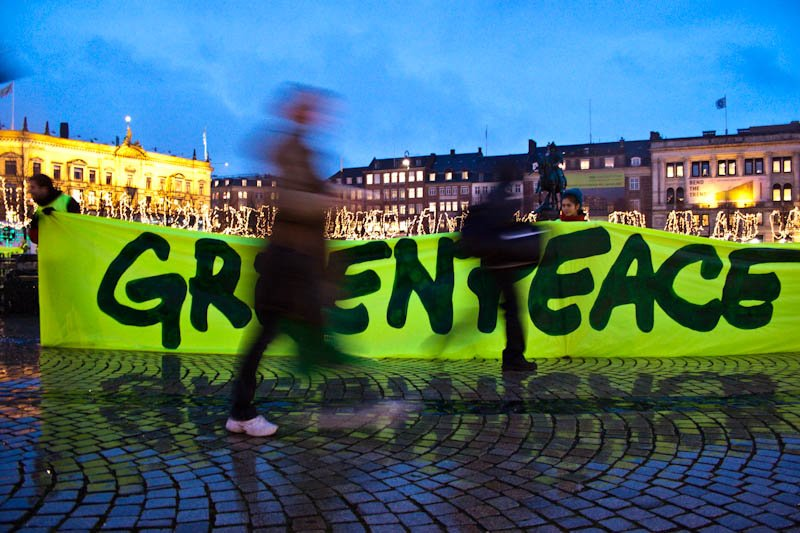 10th Dec. 2009 - 4th day of the COP15 climate summit in Copenhagen. Greenpeace activists unfurl a 50 m banner in the centre of Copenhagen, calling passers-by to join the Climate Action Day demonstration on Saturday 12th Dec. Photo Satu Pitkänen